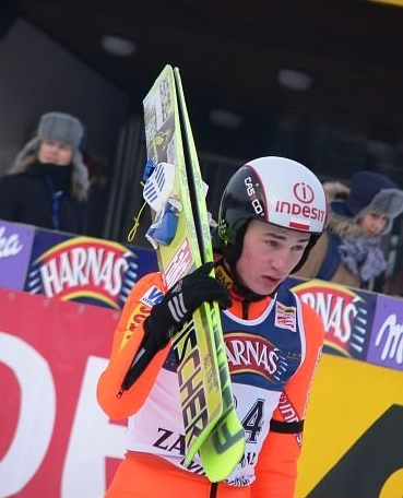 Kamil Stoch during sunday compettion of FIS Ski Jumping World Cup in Zakopane, 2006